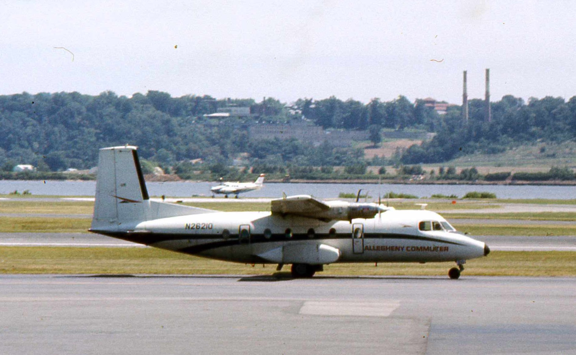 Allegheny Airlines Nord 262 of Ransome Airlines in service with the Allegheny Commuter.